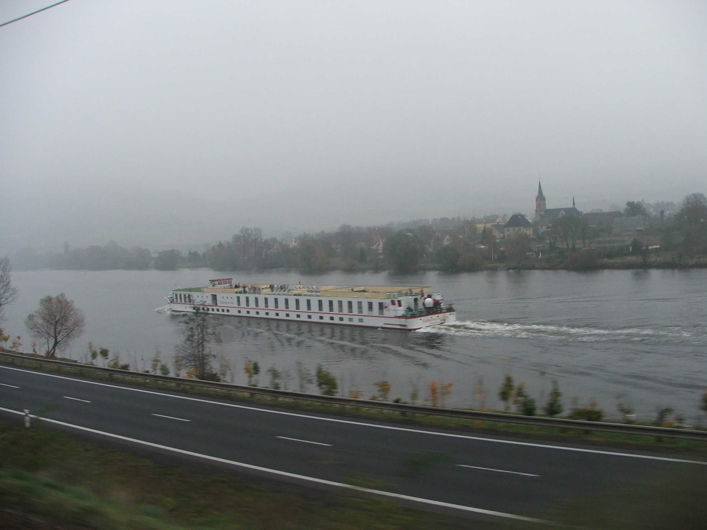 Ship on Elbe at Libochovany